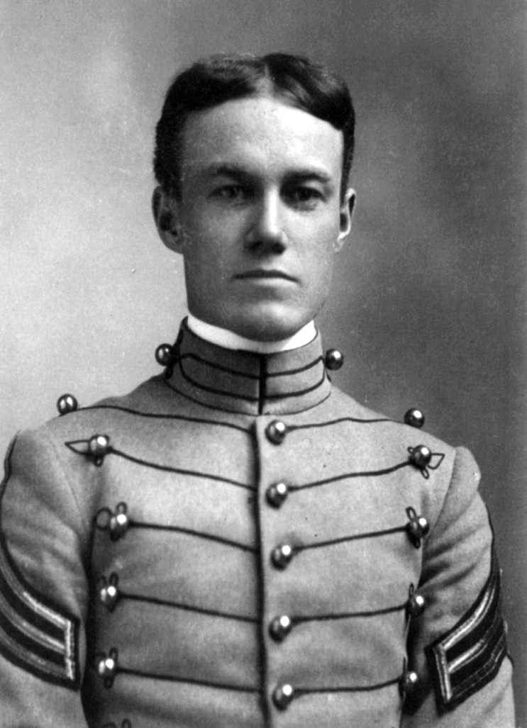 Calvin P. Titus, American soldier, Medal of Honor recipient